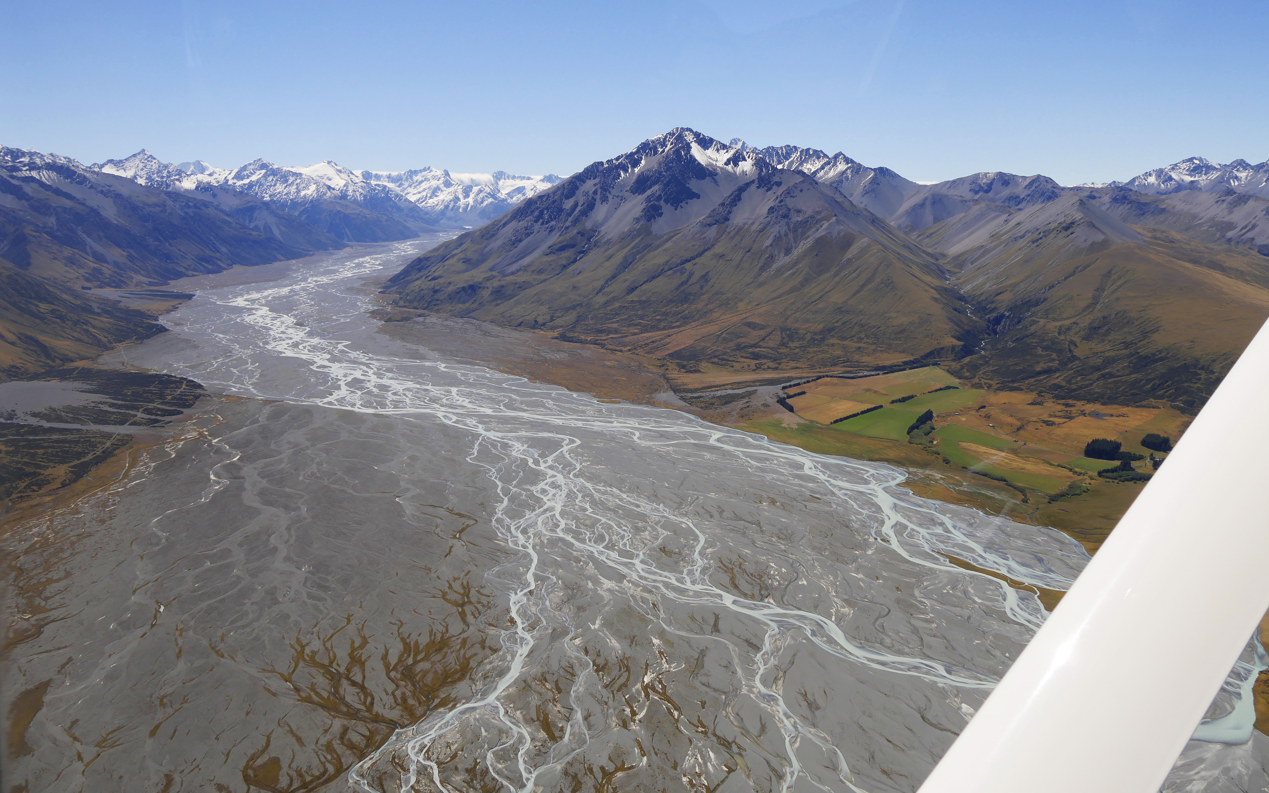 Godley River, Mackenzie District, Canterbury Region, South Island, New Zealand (aerial photo, view from Lake Tekapo to north; Mount Errebus 2311 m, Sibbald Range in the middle of the photo)